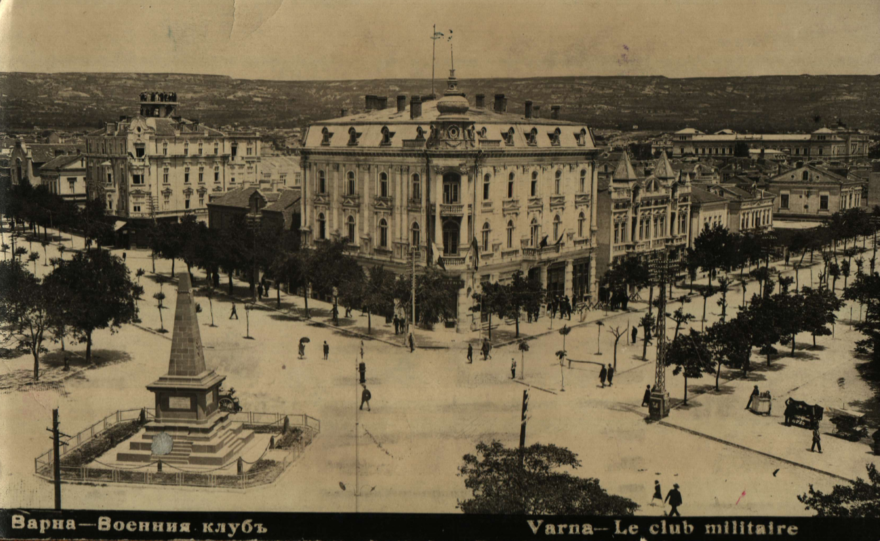 Military Club, Varna, Bulgaria